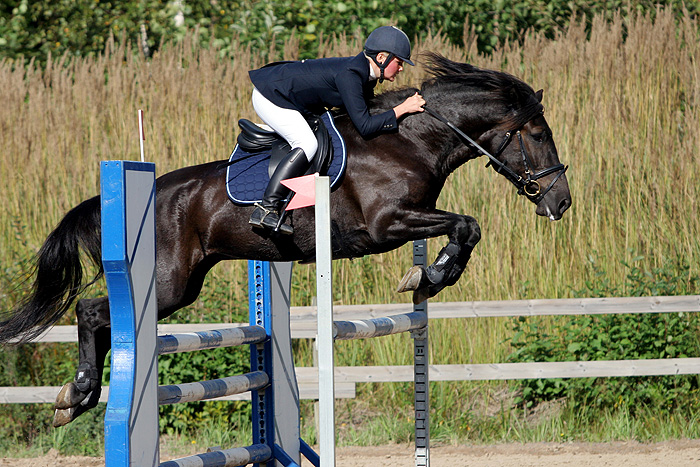 Finnhorse mare Lavilan Jenny